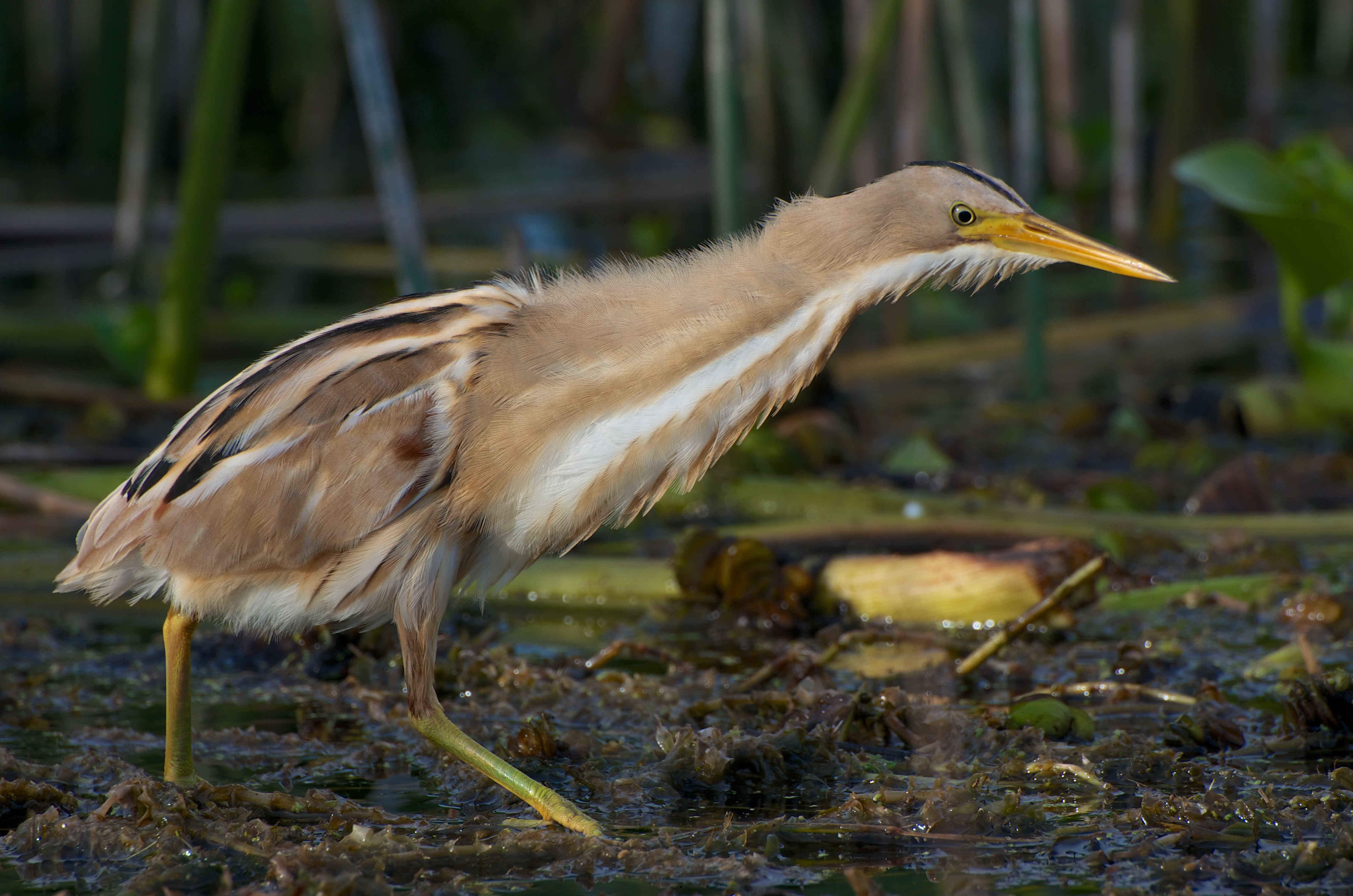 Ixobrychus involucris - Portezuelo, Maldonado, Uruguay